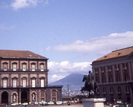 Mount Vesuvius and Naples in Italy